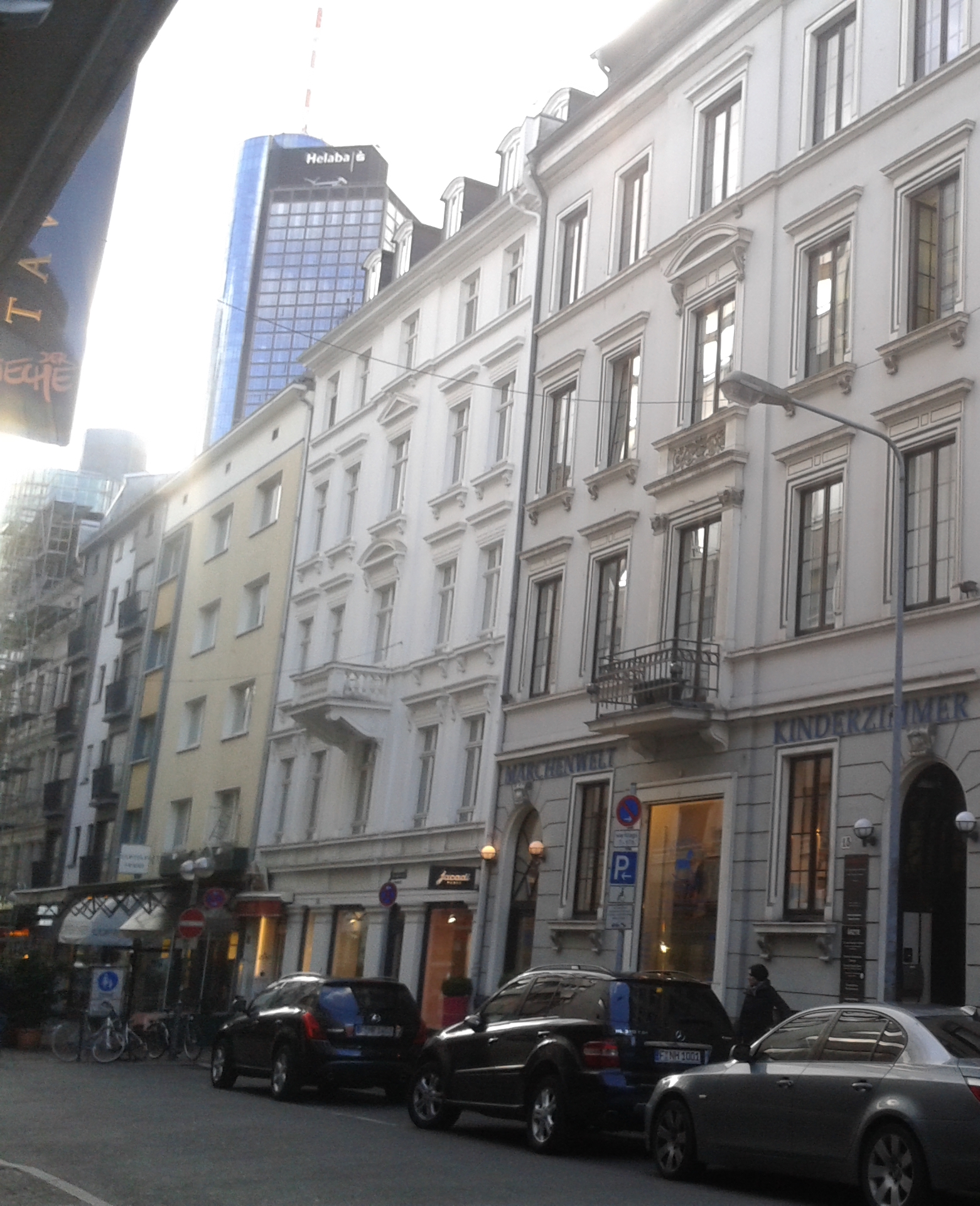 Kaiserhofstraße 15, 13, Frankfurt